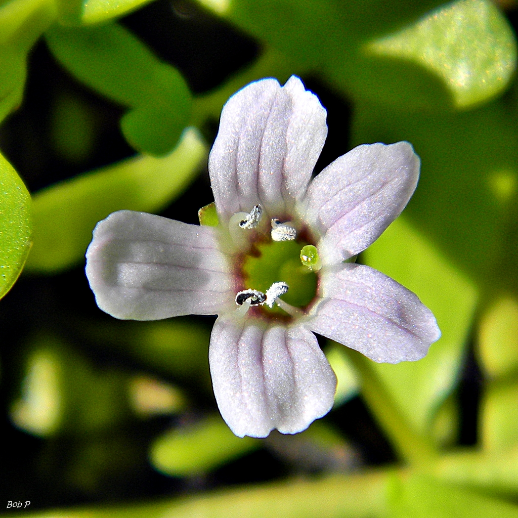 Face to face with the herb of grace. One of my favorite little micro-plants, water hyssop, at Juno Dunes Natural Area, growing along a wet trail. There is some debate as to the native status of this little herb but, despite having a Sanskrit name (Brahmi), it has been in North America as long as anyone can remember so it's probably pan-tropical. This little plant has a phenomenal variety of medicinal uses and has been utilized from ancient times right up to the present. I can't begin to list them all but uses include improving memory, antioxidant properties, a tranquillizer, muscle relaxant, anti-anxiety and anti-depressant. These seemed to have a slightly bluer tint than the ones I photographed a few months ago.